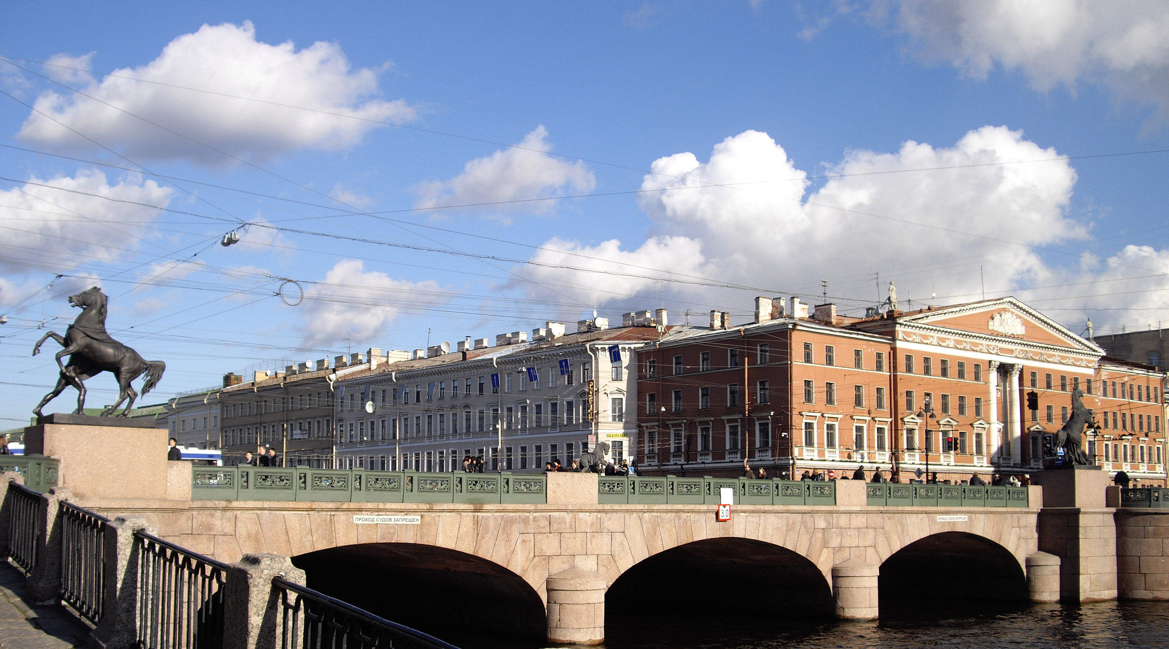 Anichkov Bridge.